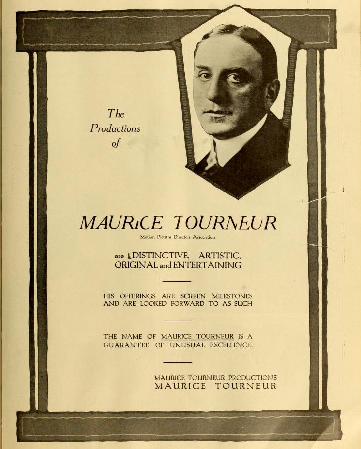 Advertisement, Moving Picture World, June 1919